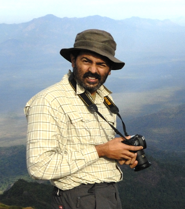 Mysore Doreswamy Madhusudan.jpg.